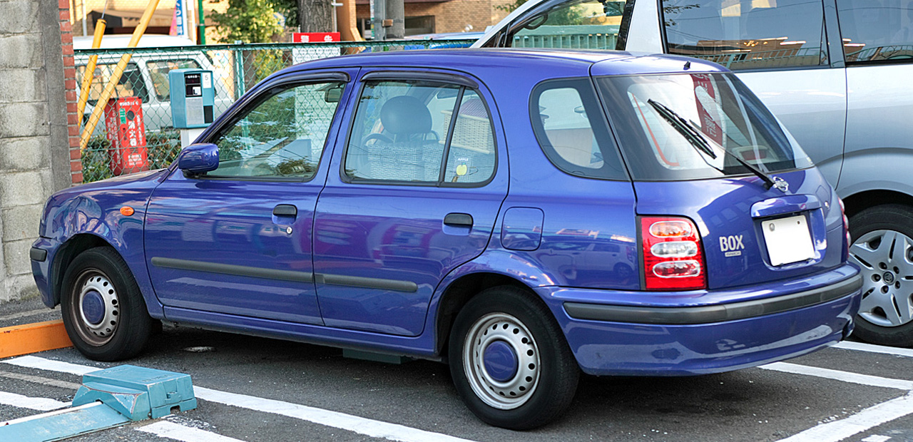 Nissan March Box (WK11)